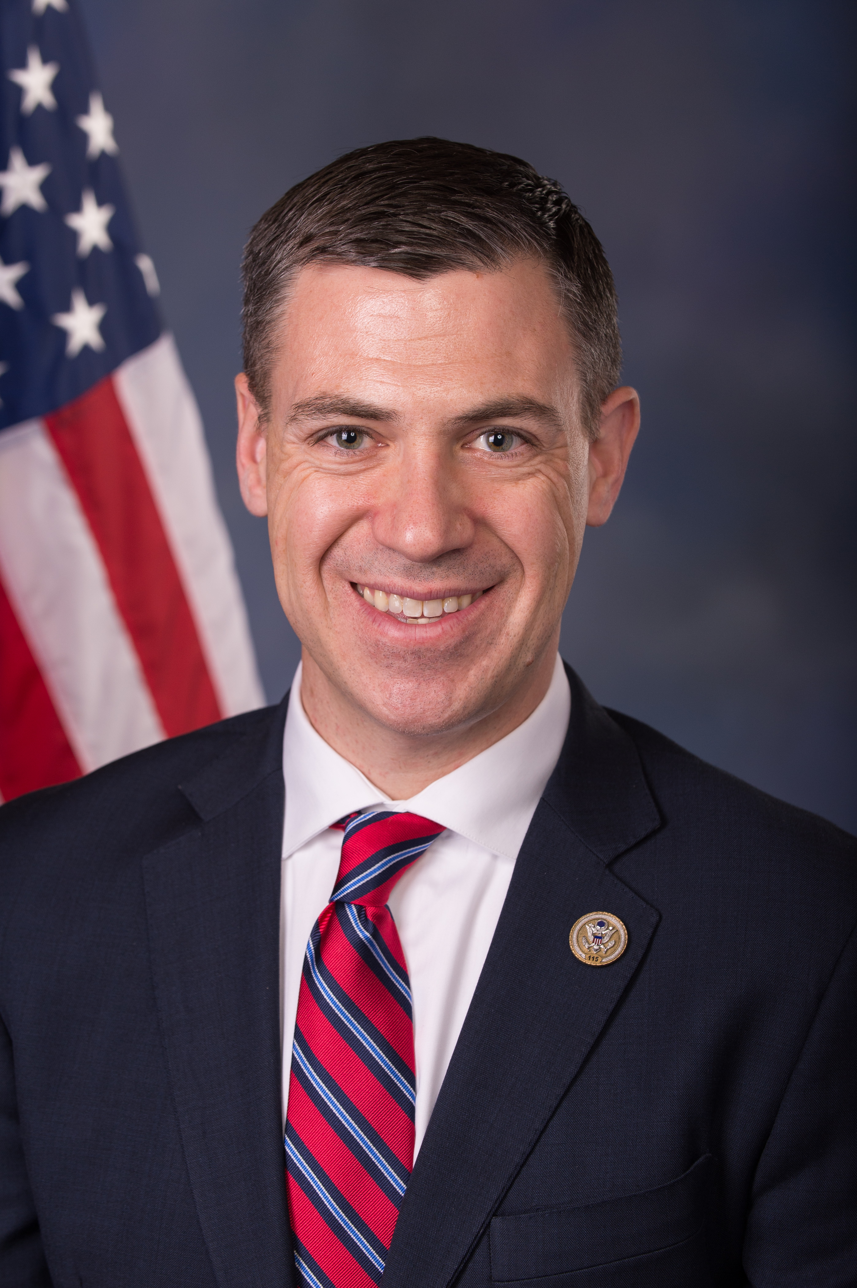 Congressman Jim Banks' official congressional portrait